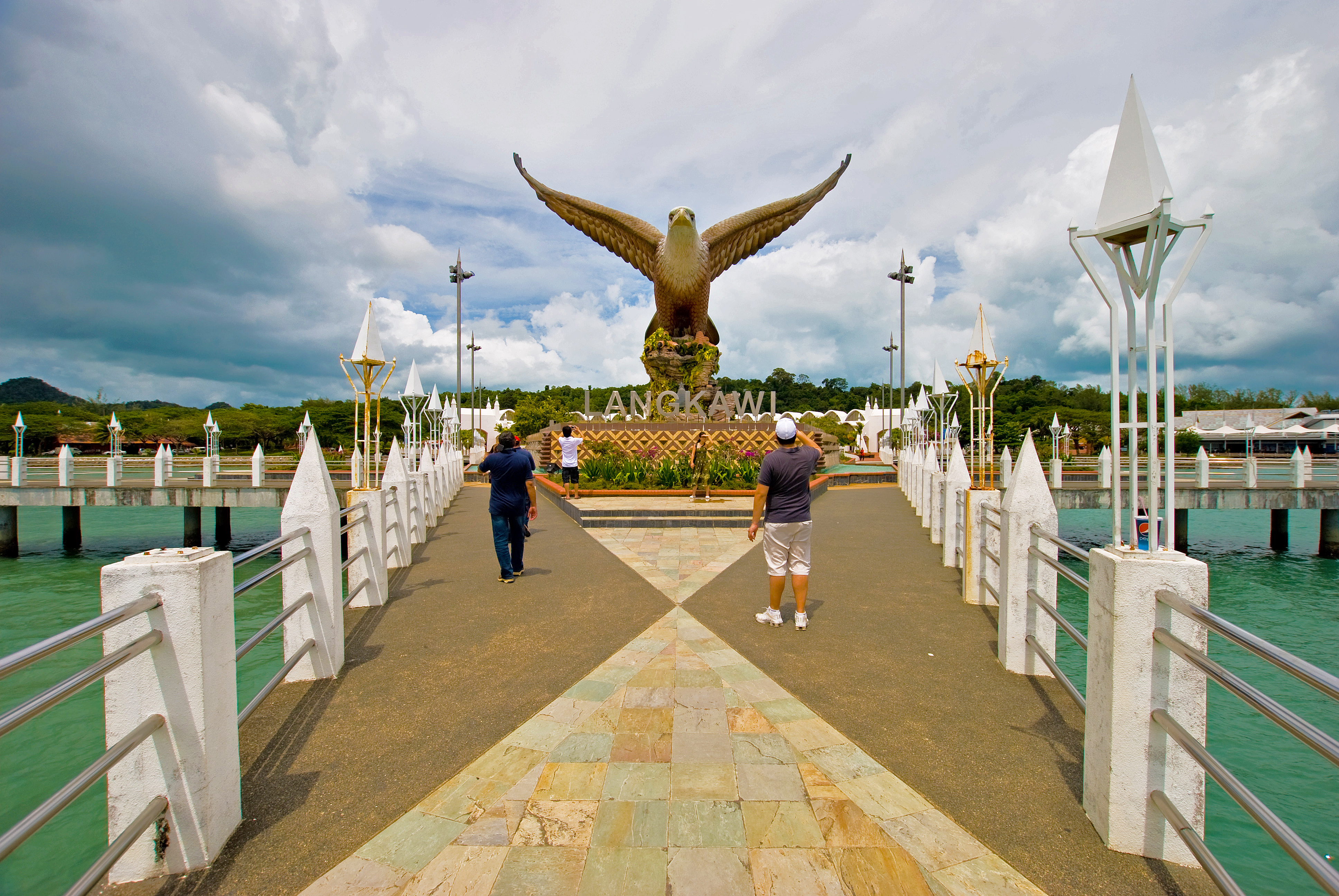 Eagle Square